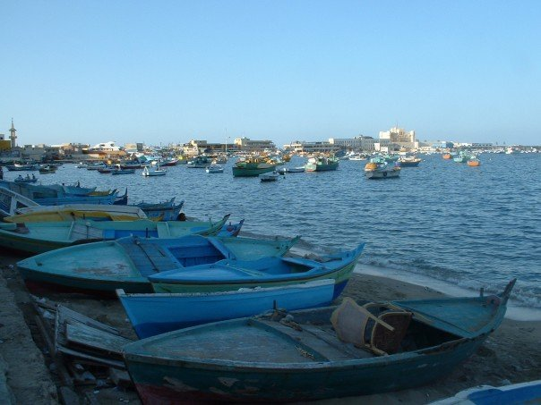 Egyptian Felouk at Alexandria - boatman, A man in charge of a small boat.